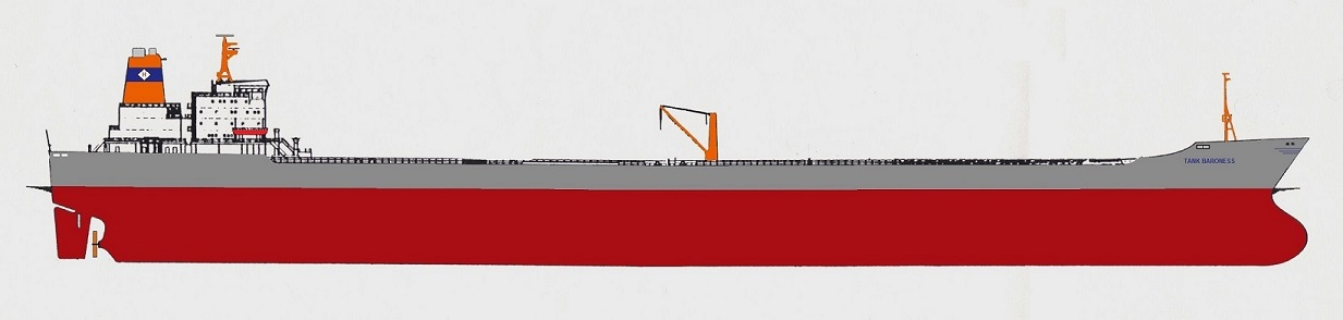 Oil Tanker ship